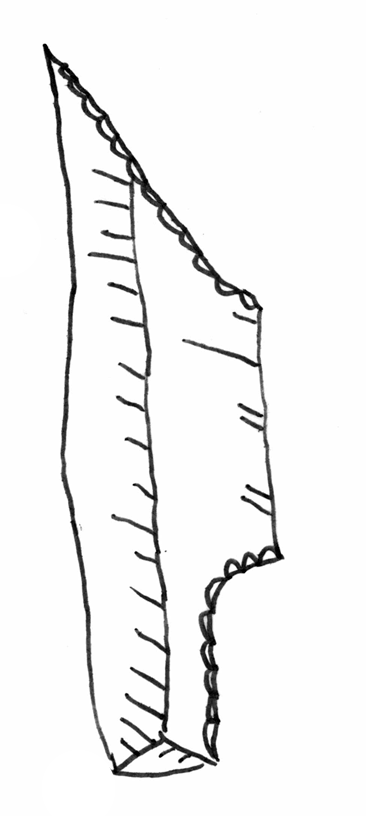 A drawing of a point from the paleolithic Hamburgculture